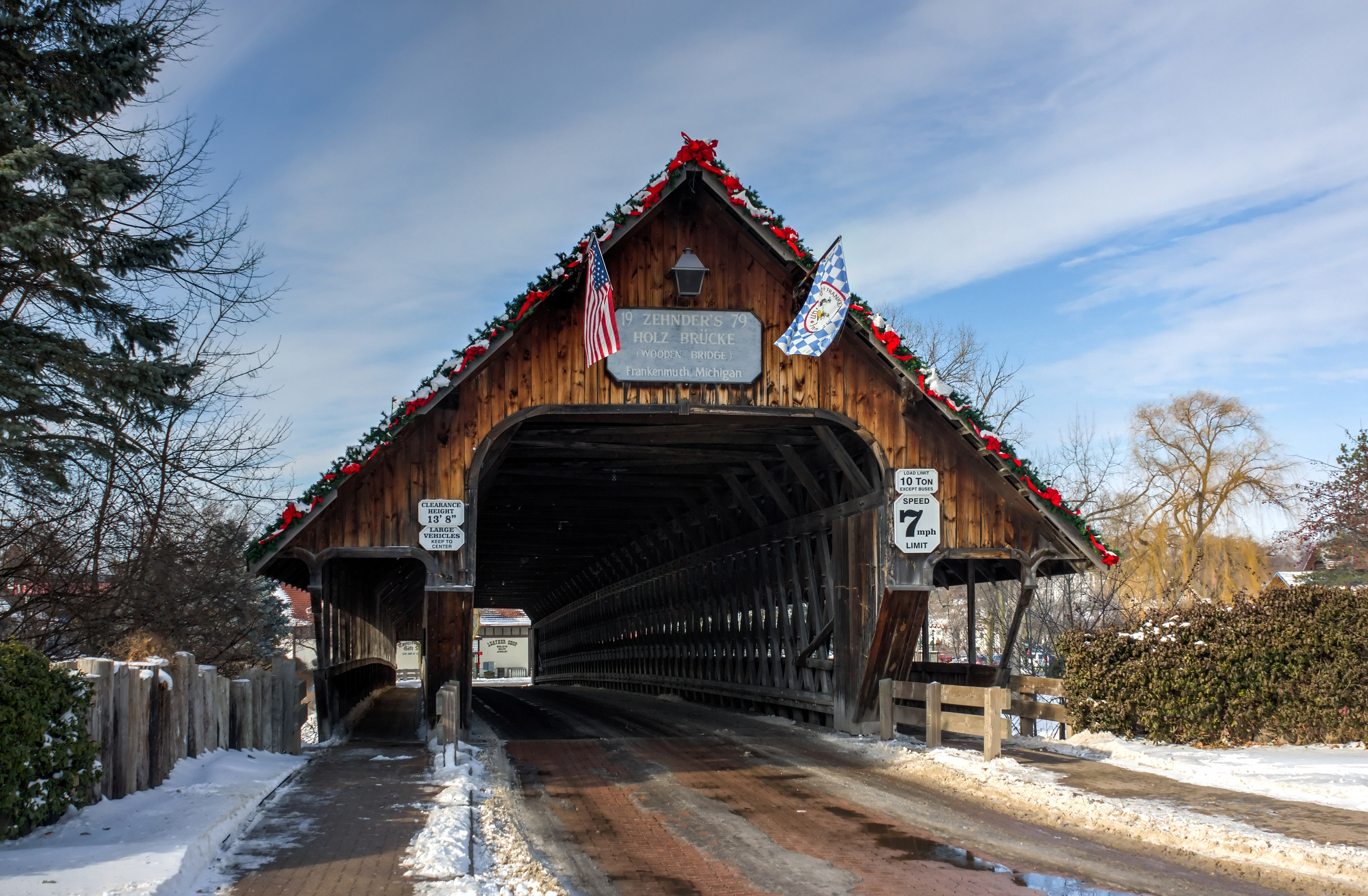 Covered bridge entrance, Frankenmuth, Michigan, 2015-01-11